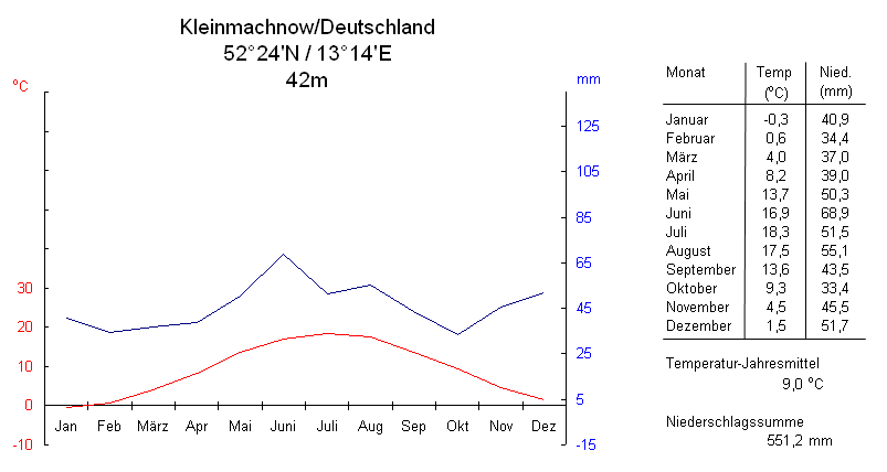 climate chart in the format by Walther and Lieth